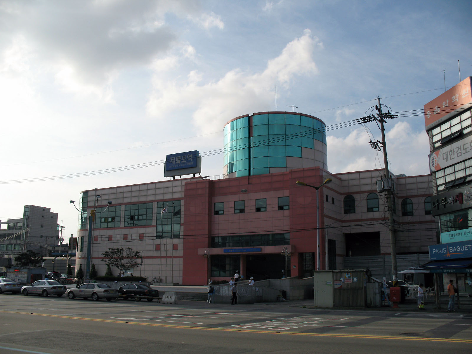 Jemulupo Station.